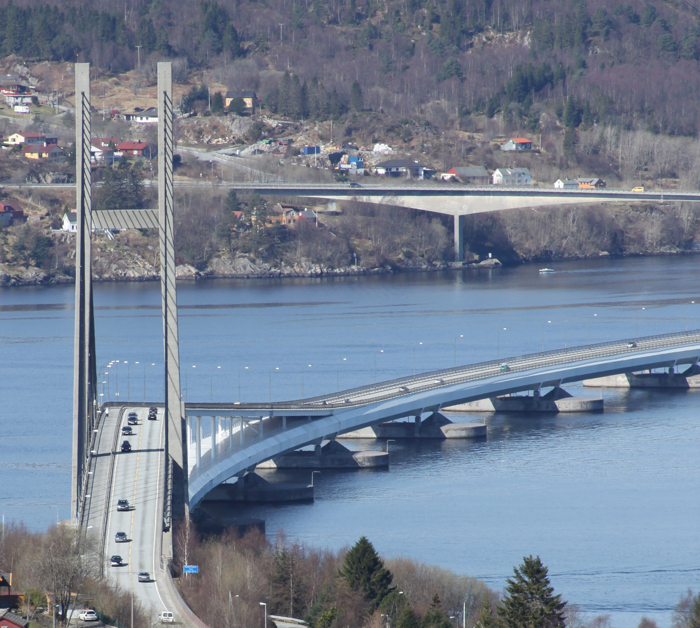 Nordhordland Bridge towards north wit Korssnesundet Bridge behind